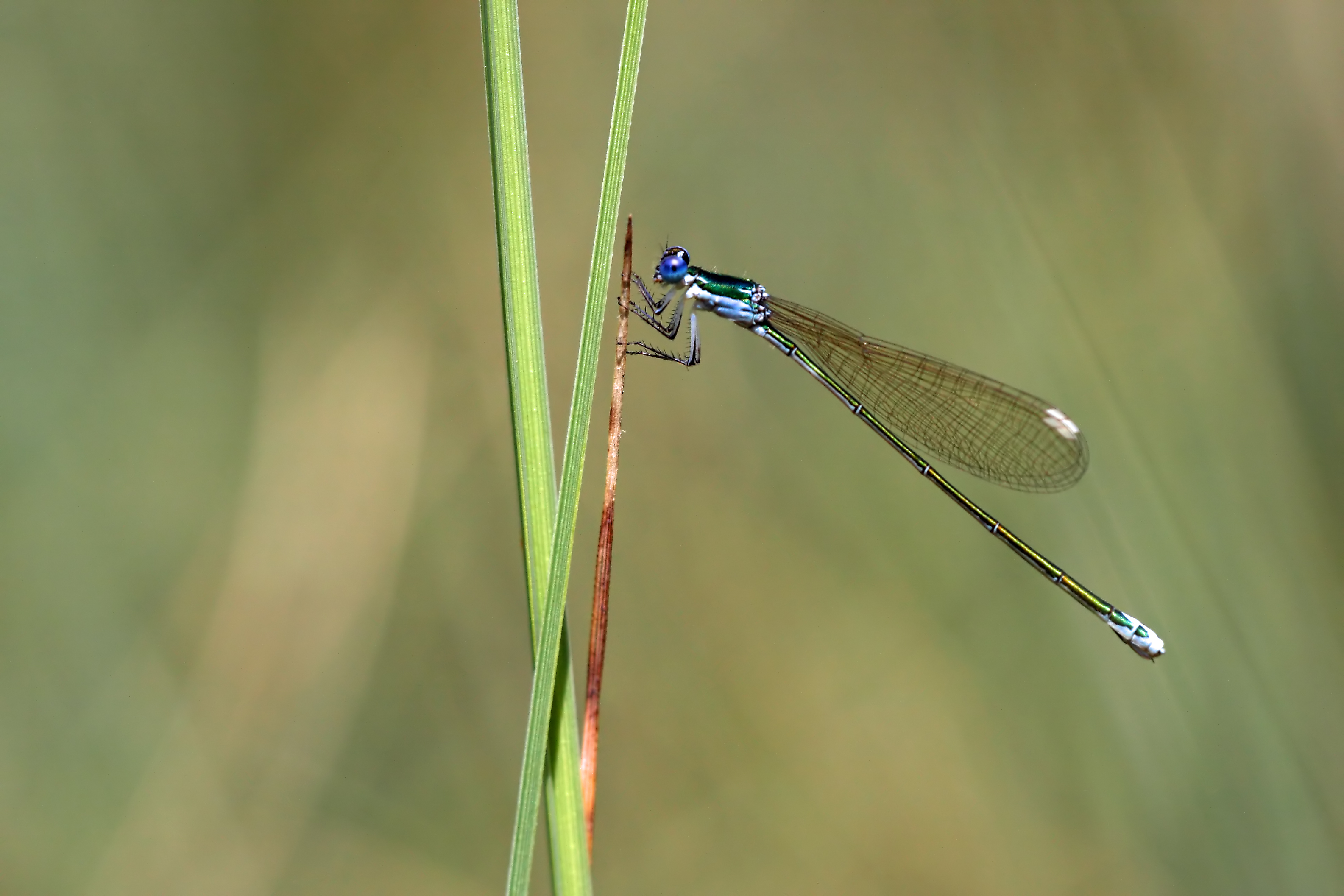 Pygmy Damselfly, female from Germany / Brandenburg